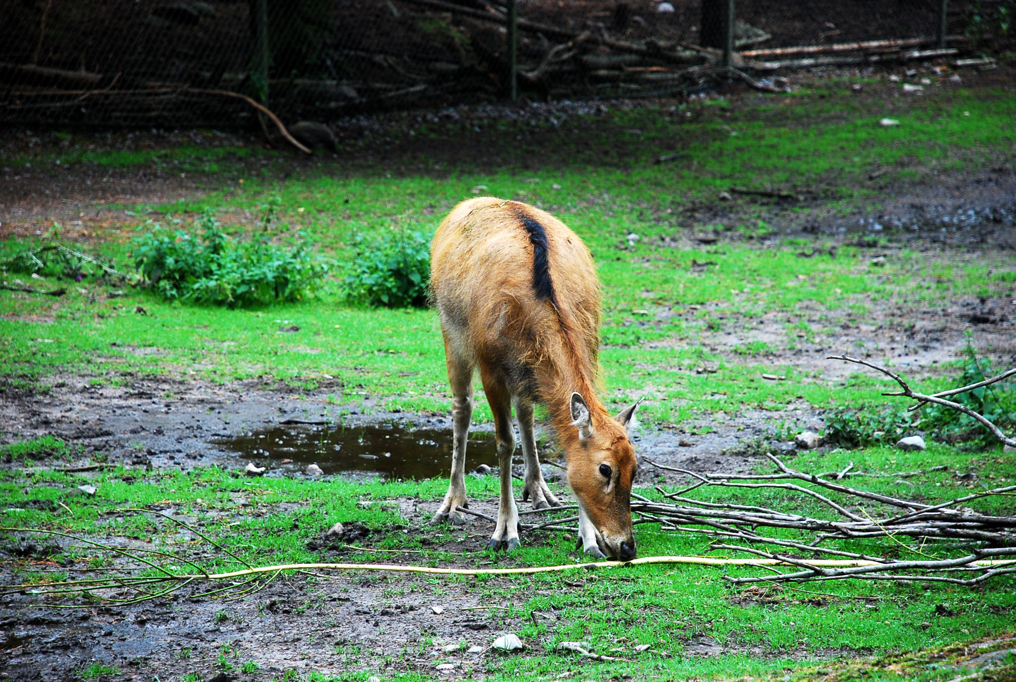 Père David's Deer, Elaphurus davidianus, also known as the Milu. In captivity at Kolmården, Sweden.